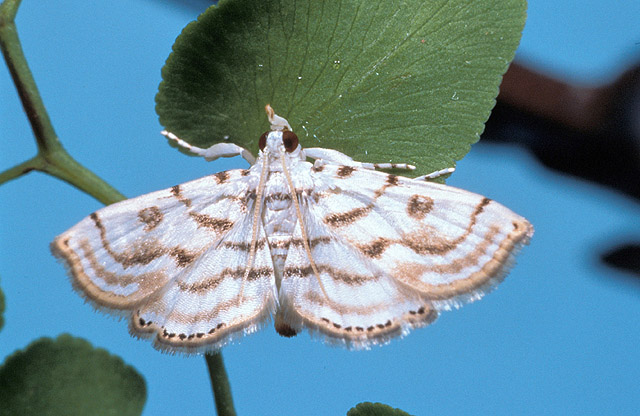 Original description: "The male Cataclysta camptozonale moth has darker brown markings than the female, shown on the cover."